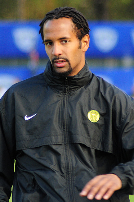 photo of soccer player, Antouman Jallow.